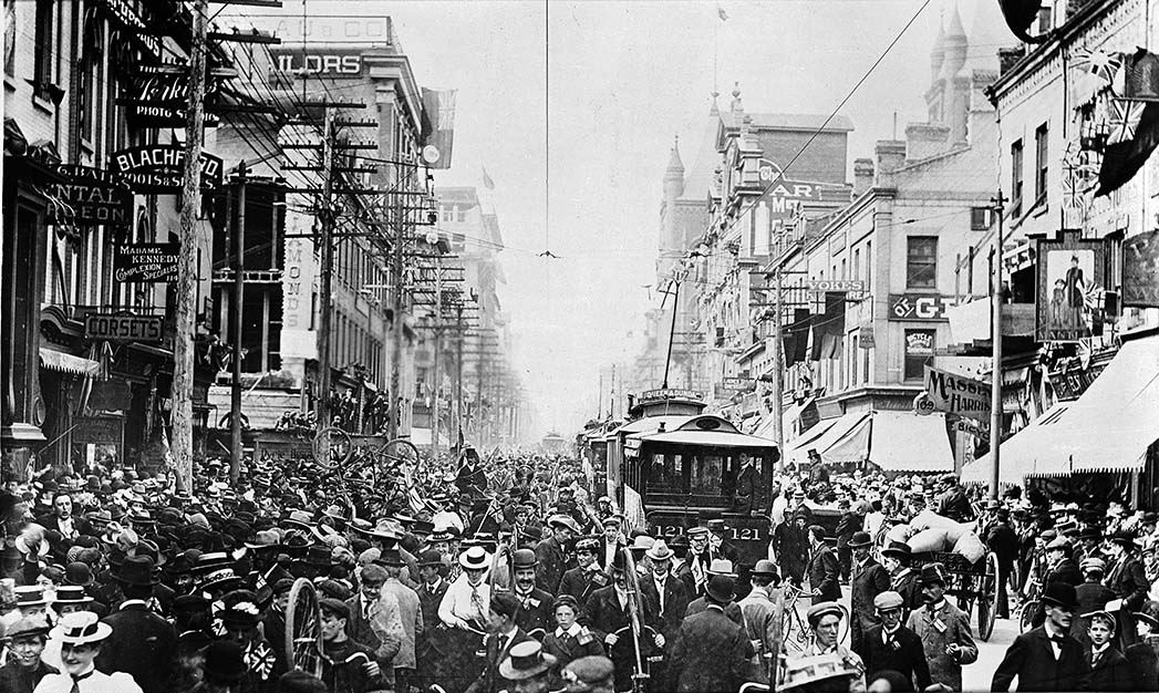 Pretoria Day 1901 (South African War celebration) Yonge St. north at Adelaide St. (Toronto, Canada)